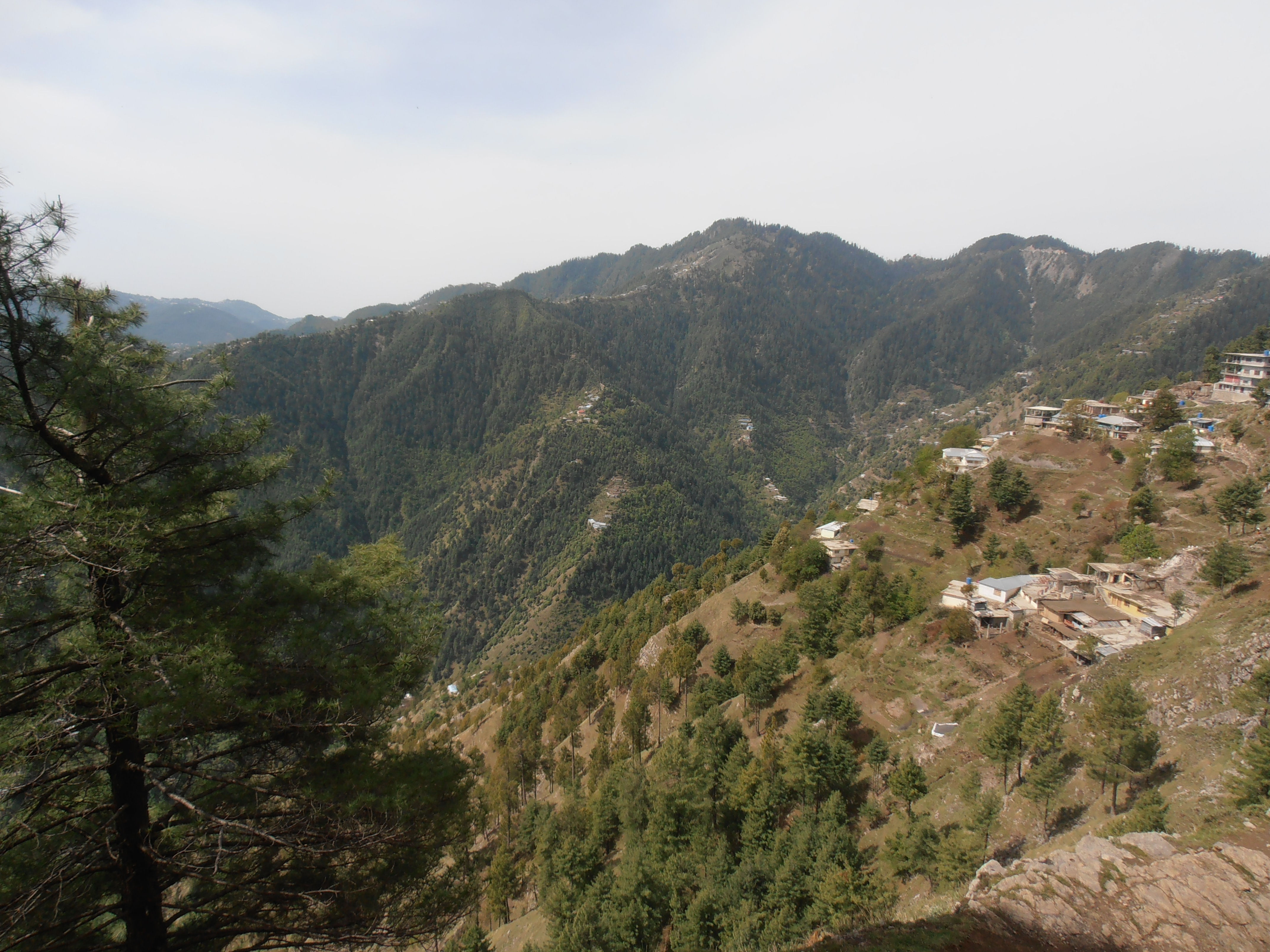 Khanaspur village in KPK, Pakistan; near Ayubia, not far from Murree